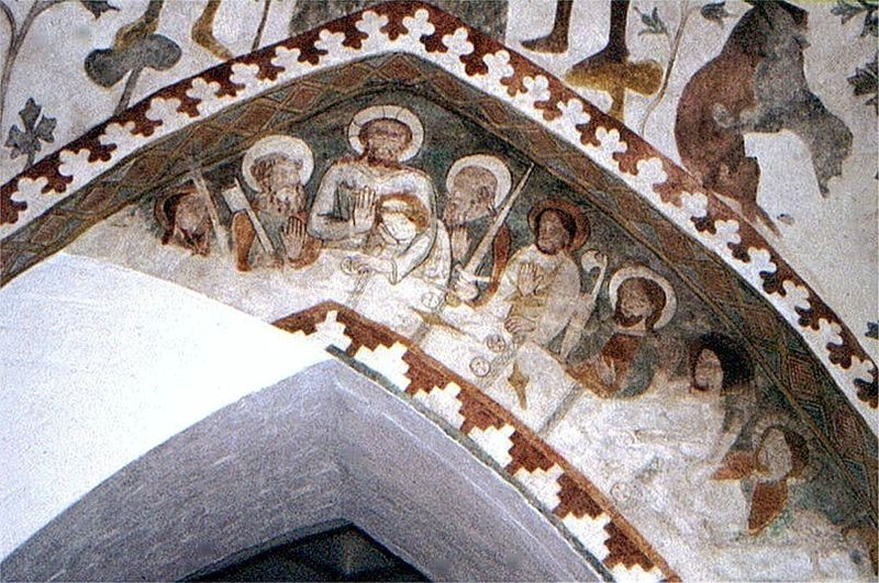 Birkerød Kirke (church)